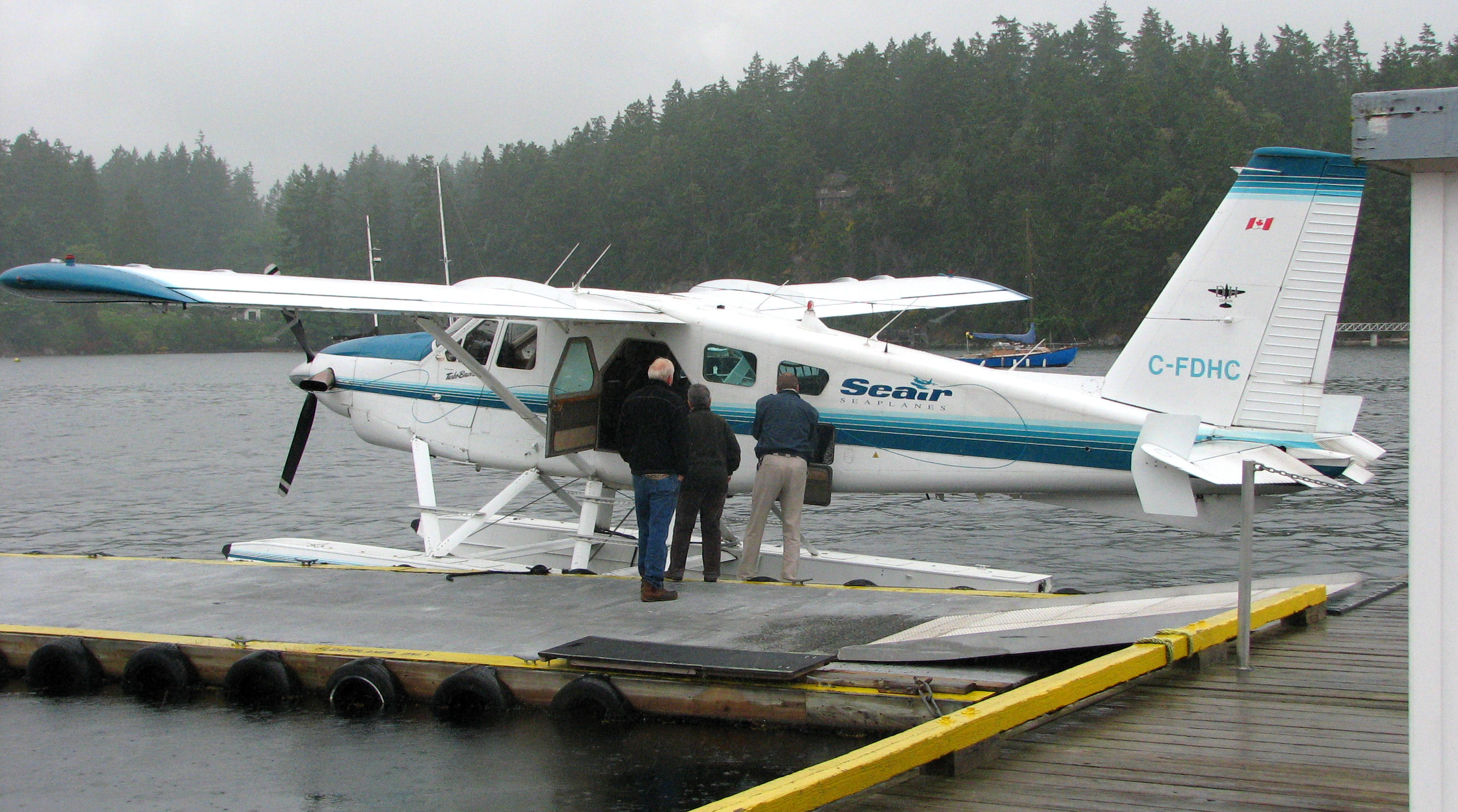 De Havilland Canada DHC-2T Turbo-Beaver of Seair Seaplanes, unloading at Ganges, Saltspring Island, British Columbia